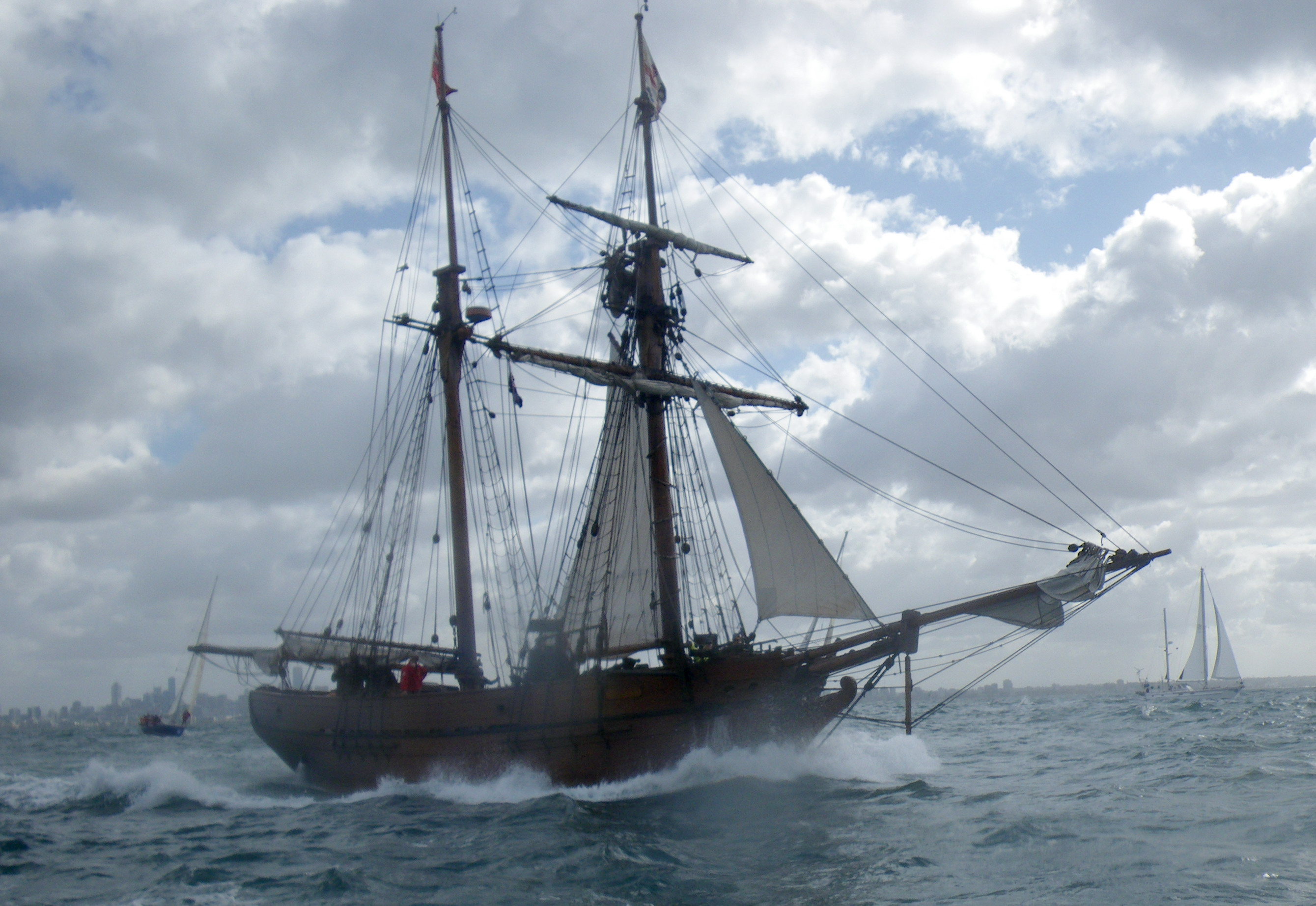 Replica tall-ship "Enterprize" in Melbourne.